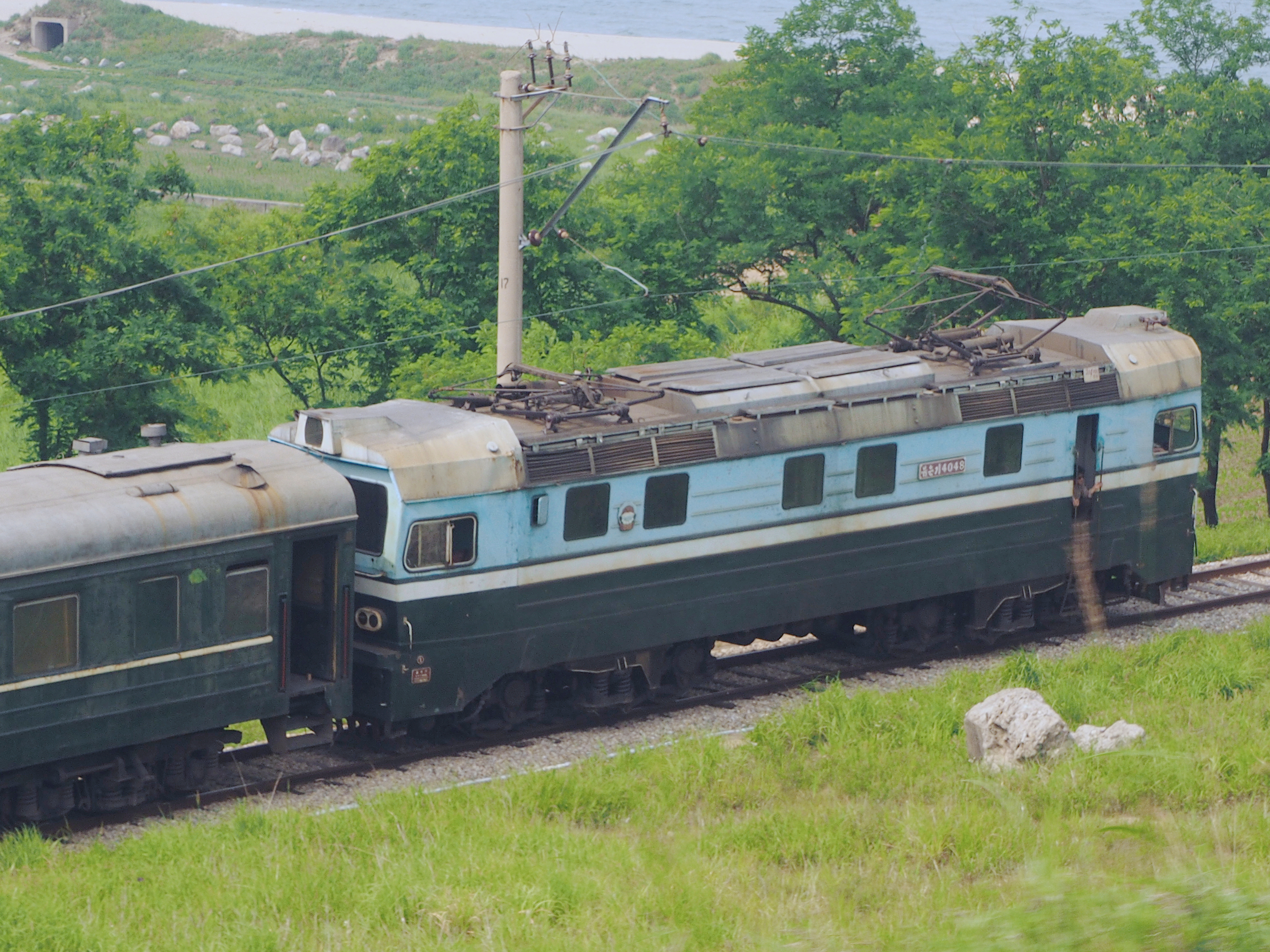 Electric locomotive #4048 of the Korean State Railway near Wonsan, North Korea.